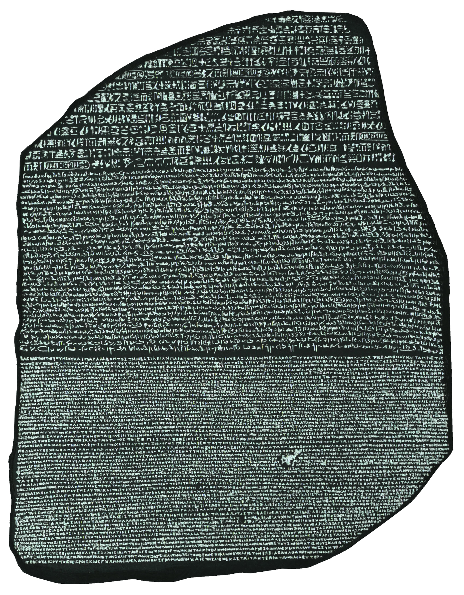 A picture of the Rosetta Stone, in a high contrast, readable format